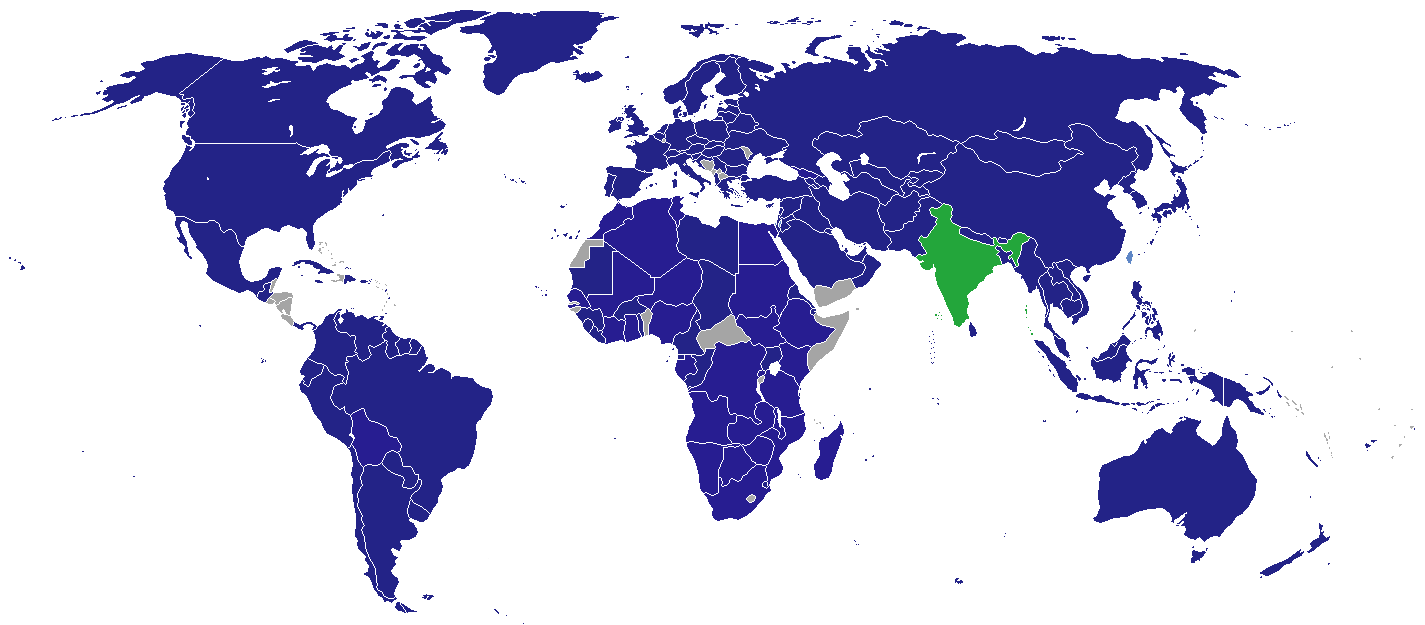 India Nations India recognizes and has diplomatic relations with Nations India recognizes and does not have diplomatic relations with Disputed areas